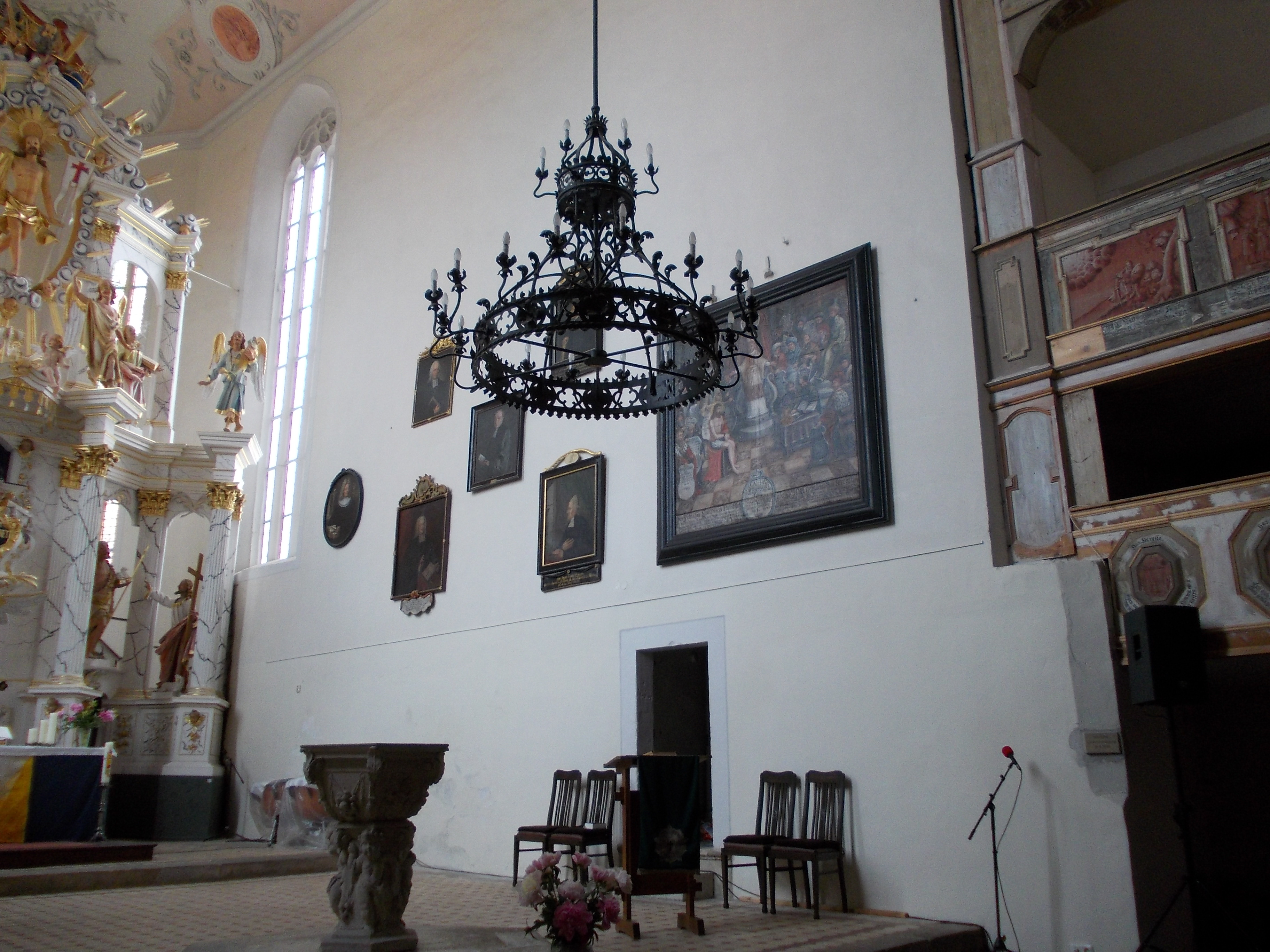 St. Michael, the main church of the town of Buttstädt (Sömmerda district, Thuringia)